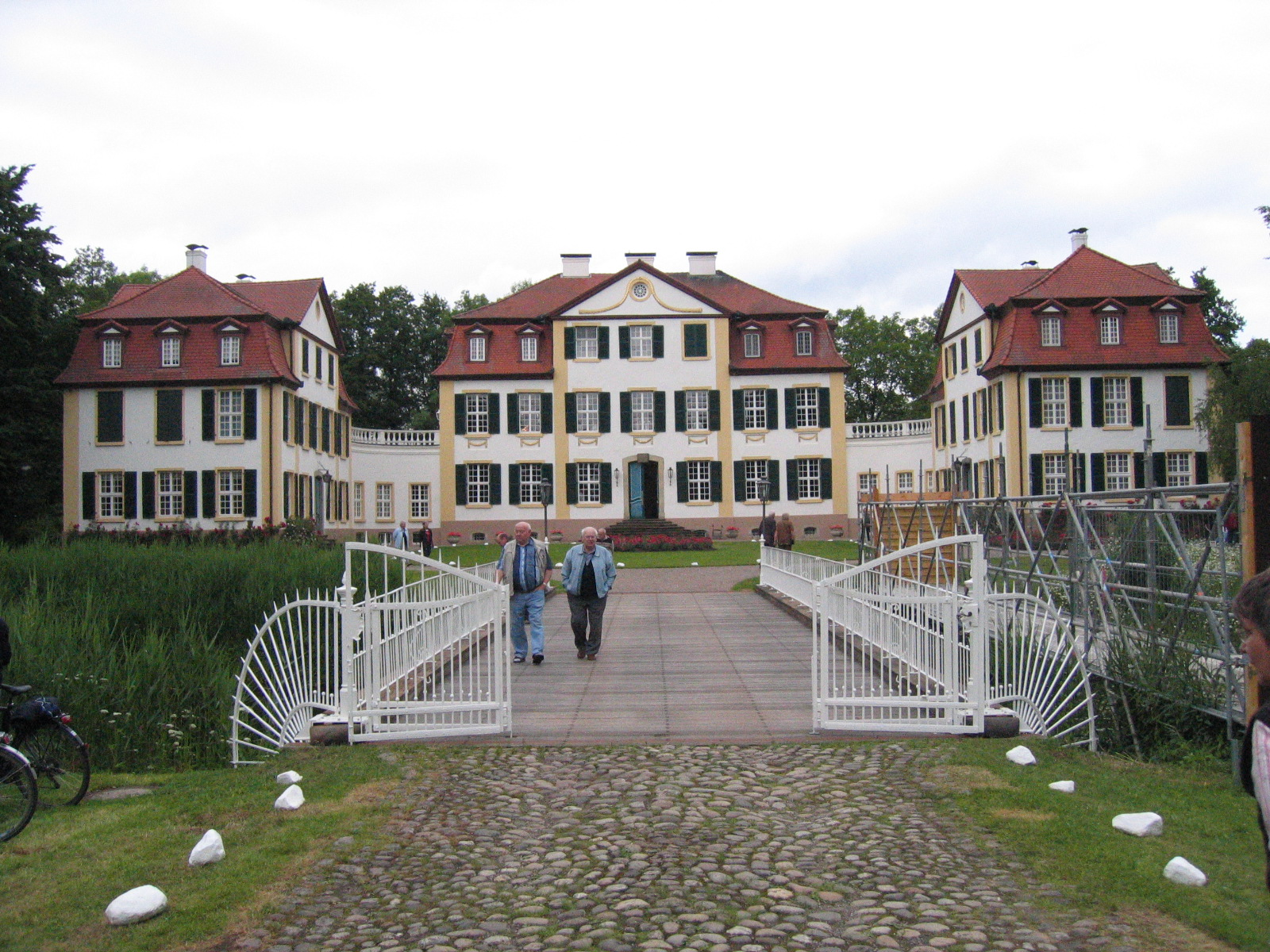 Hüffe Castle in Preußisch Oldendorf, District of Minden-Lübbecke, North Rhine-Westphalia, Germany.